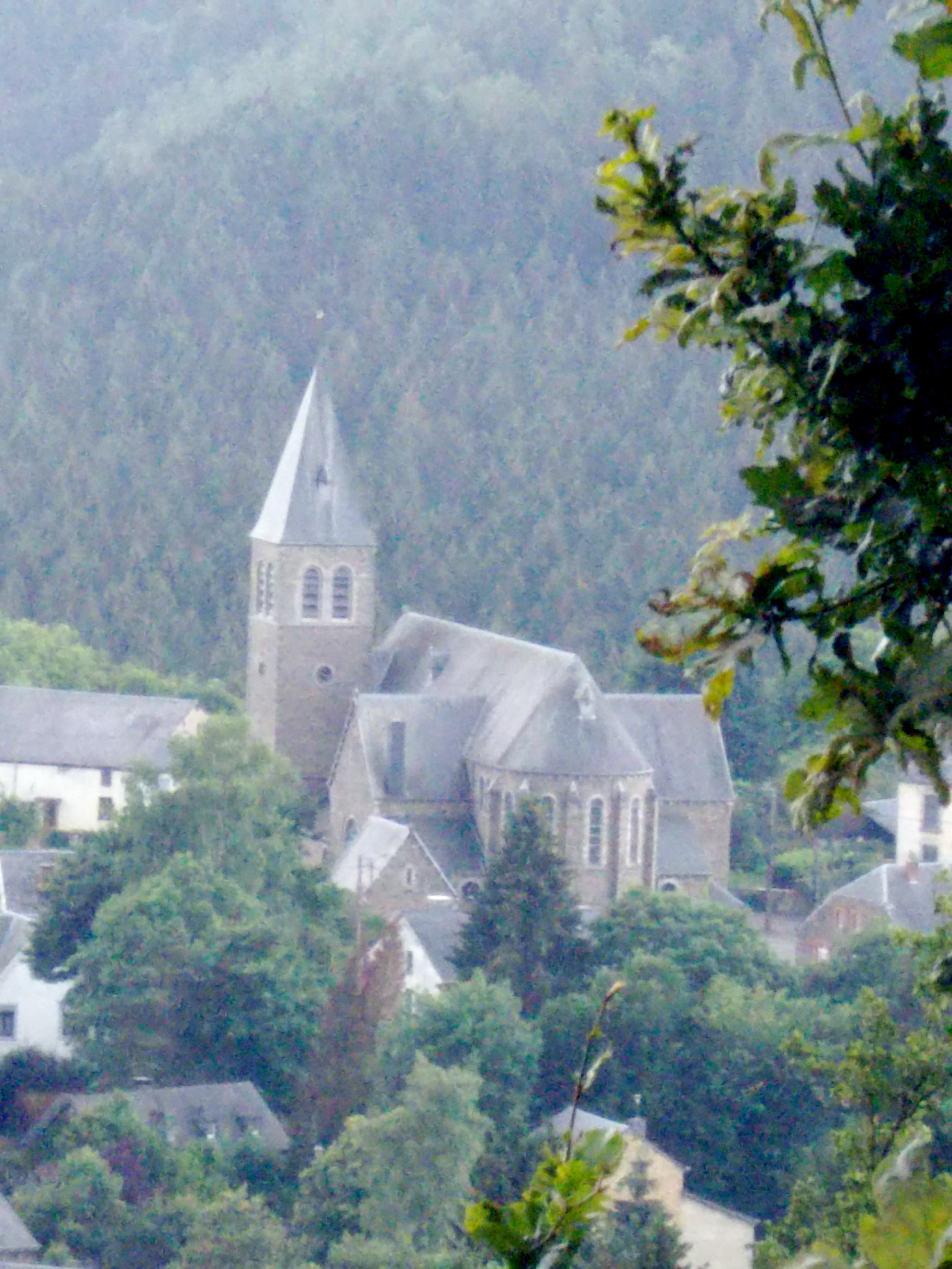 The church of Herbeumont (Belgium)